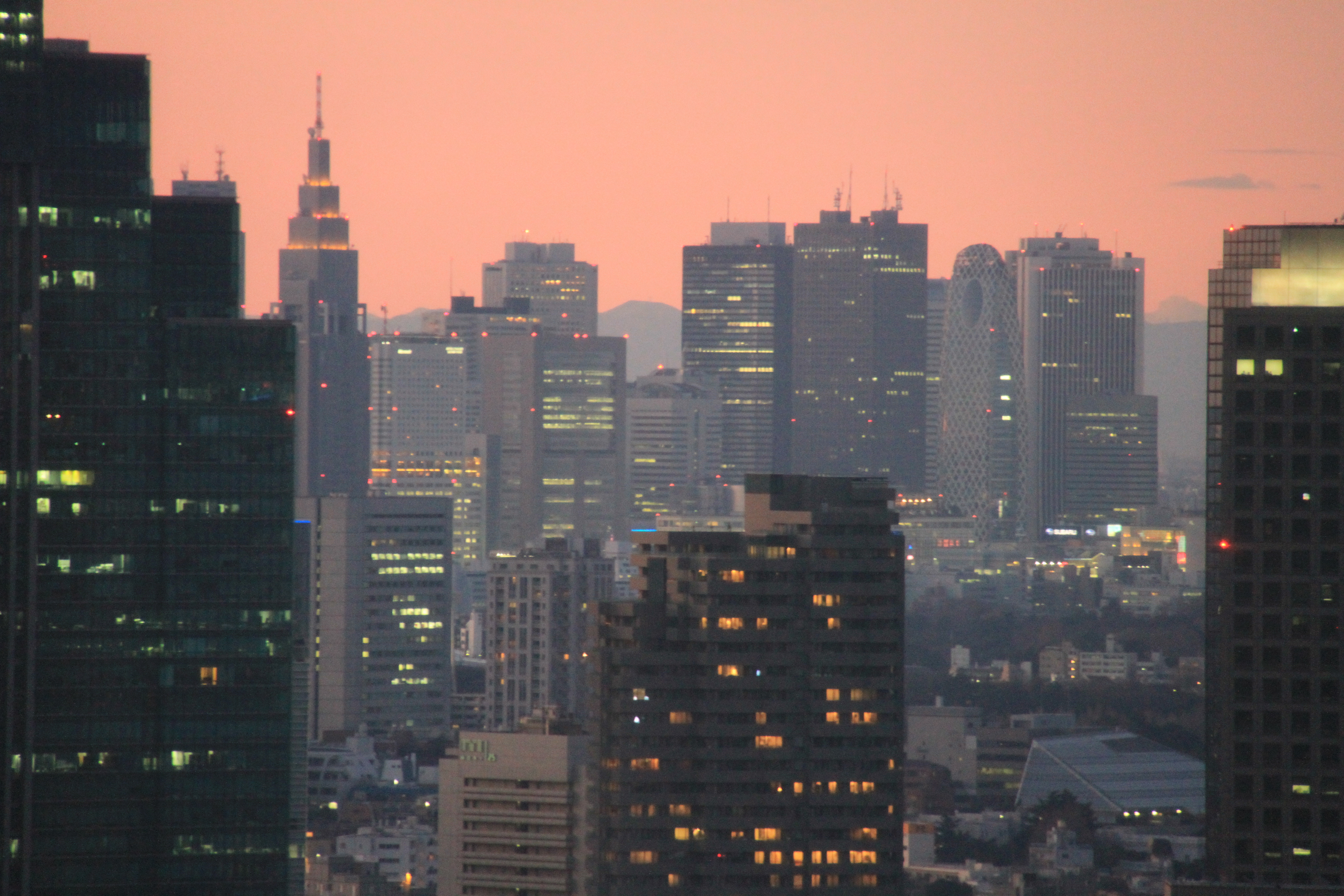 2 Chome Hamamatsuchō, Minato-ku, Tōkyō-to 105-0013, Japan